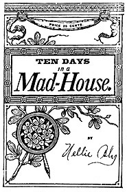 front cover of Nellie Bly's book 'Ten Days in the Mad-House' published in 1887